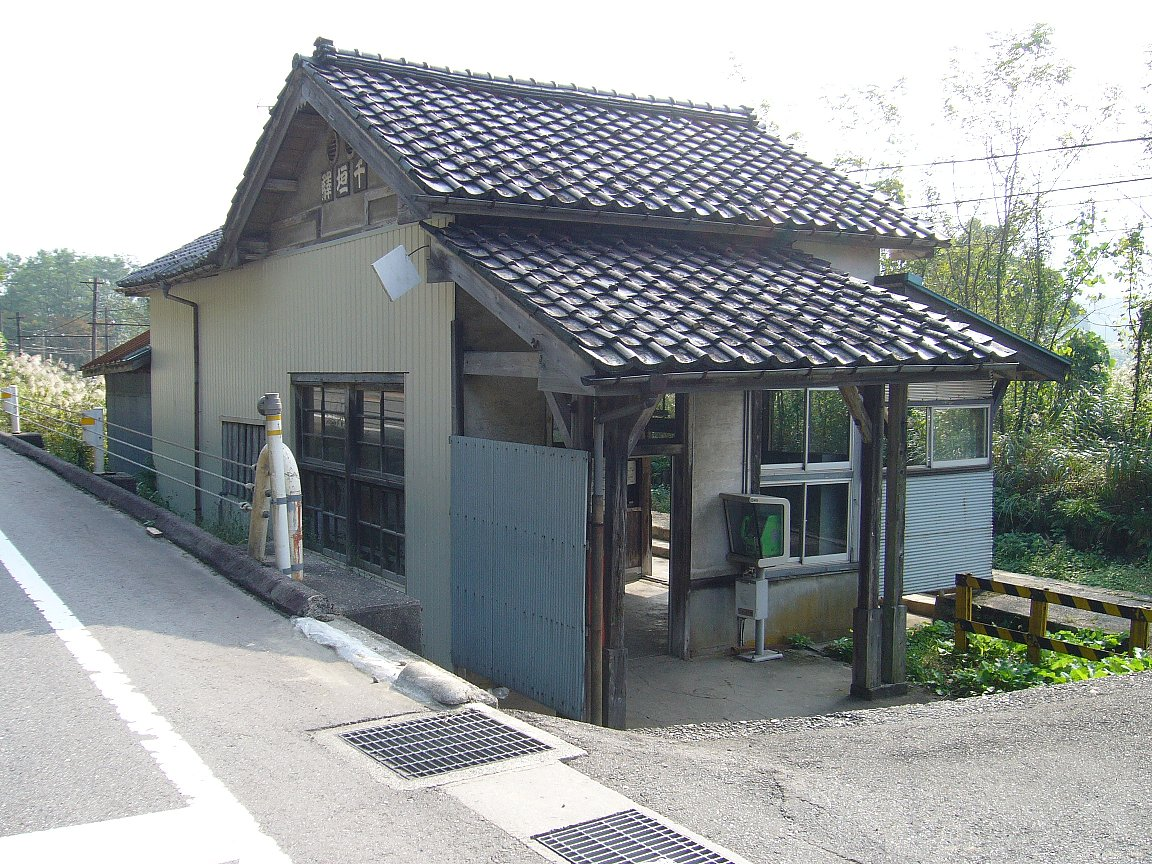 Chigaki Station on the Toyama Chiho Railway Tateyama Line in Tateyama, Toyama Prefecture, Japan